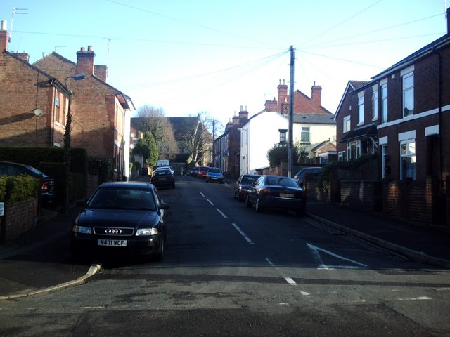 looking up Cobden Street from Stanley St, New Zealand, Derby